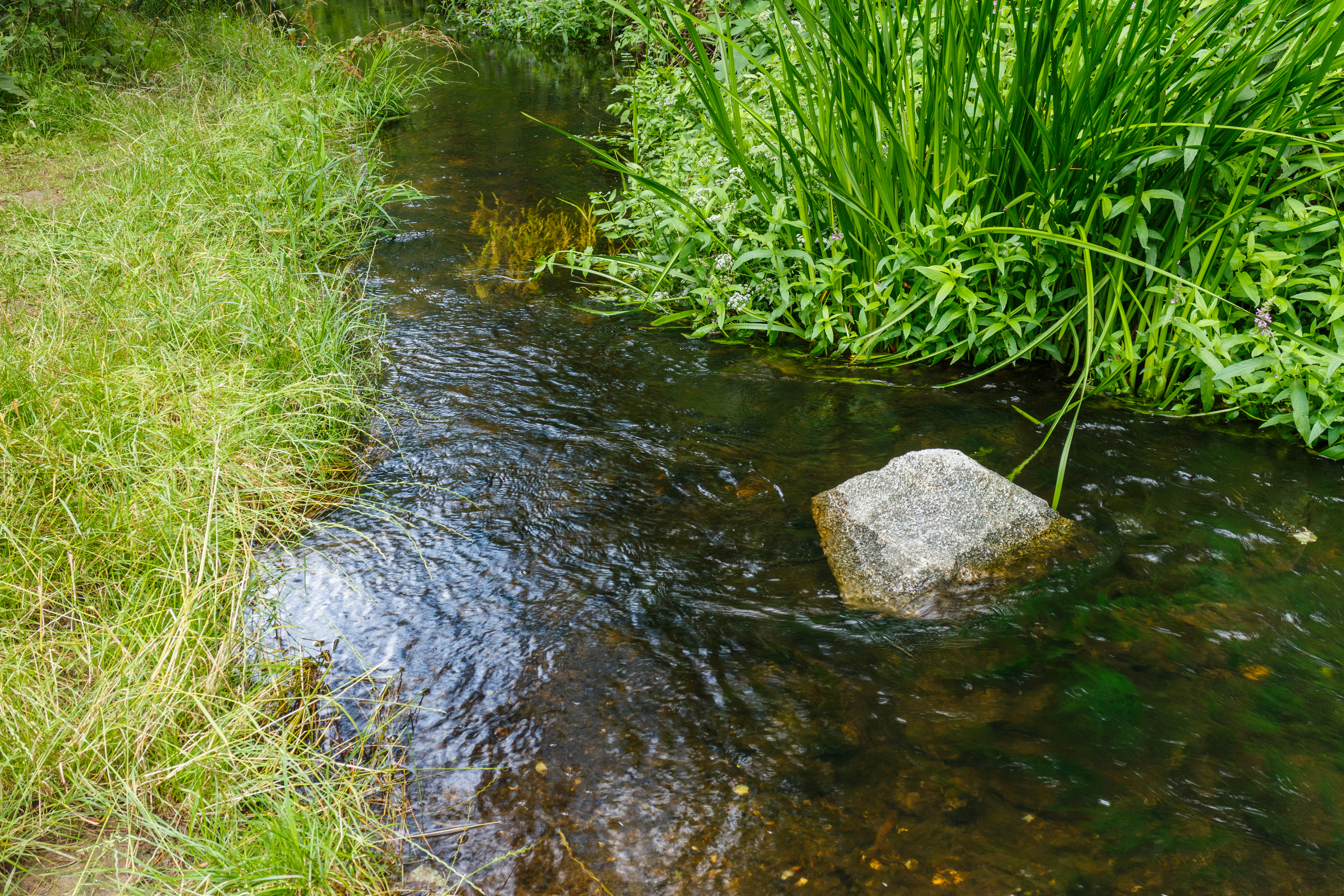 Waterloopbos. Natuurgebied van Natuurmonumenten. Source of the Voorsterbeek.